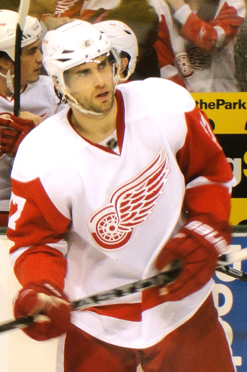 Detroit Red Wings bench